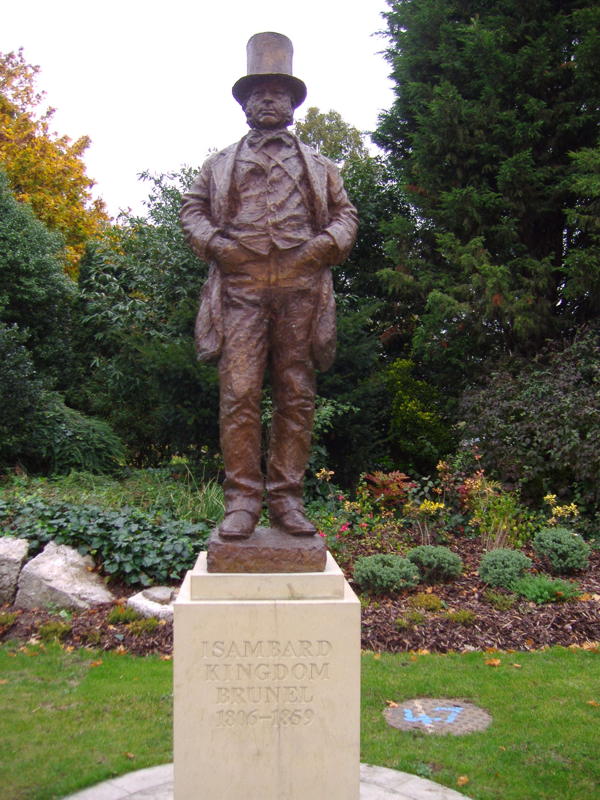 A Digital Photograph of a Statue of Brunel at the University of his name